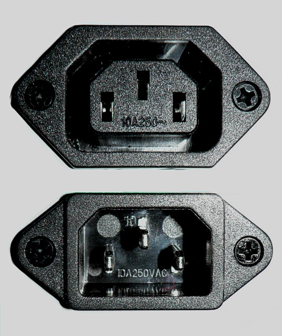 atx power supply connectors